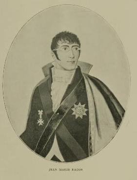 Illustration from PD book, of character playing a role in the "history" of Freemasonry